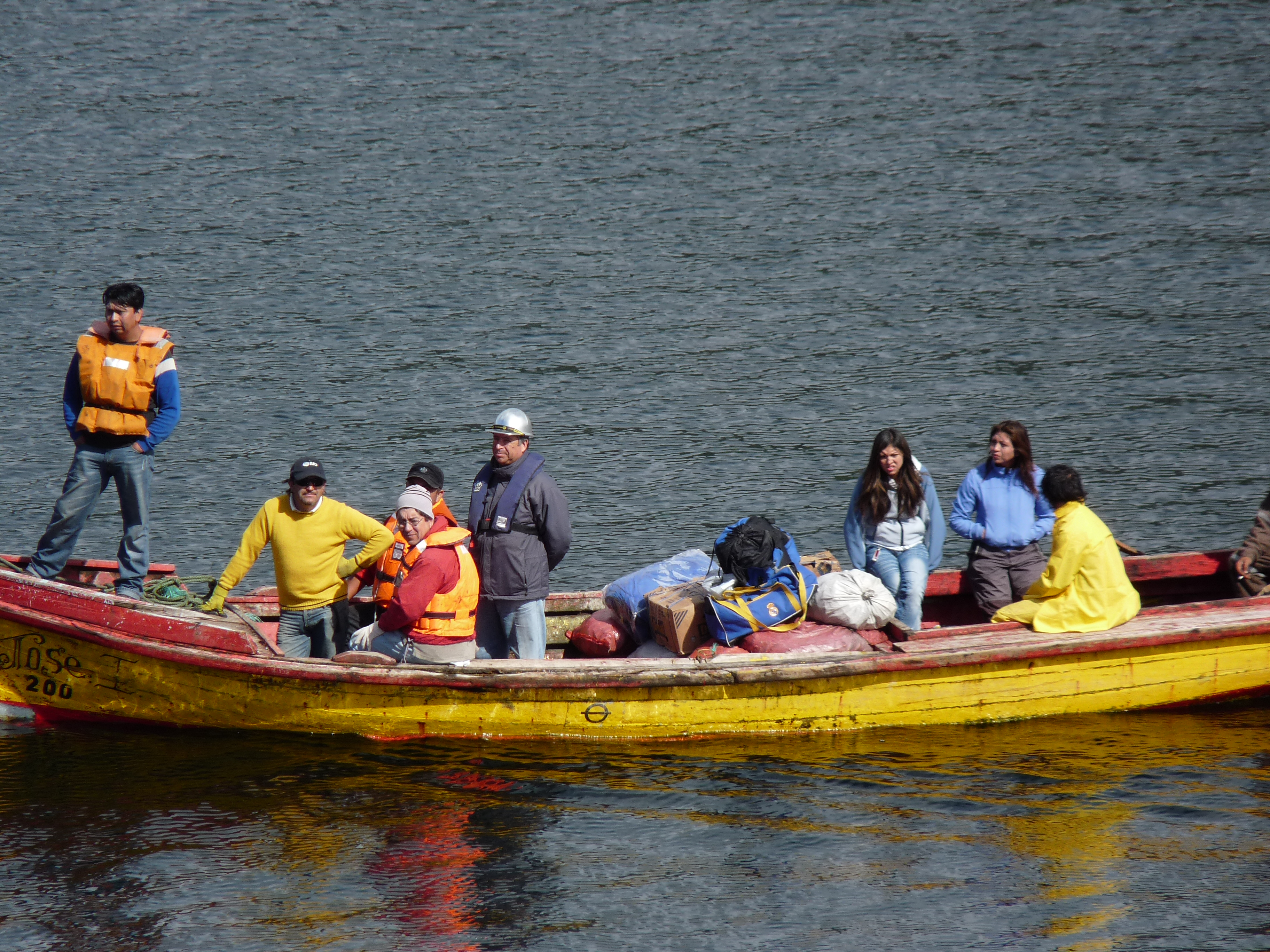 Passengers boarding the ferry boat passing by Puerto Edén, Chili, in direction of Puerto Natales.